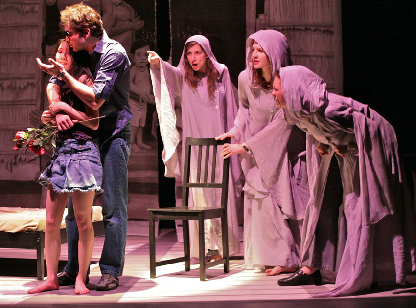 Number 18 is groomed by a pimp in the Canadian play She Has a Name